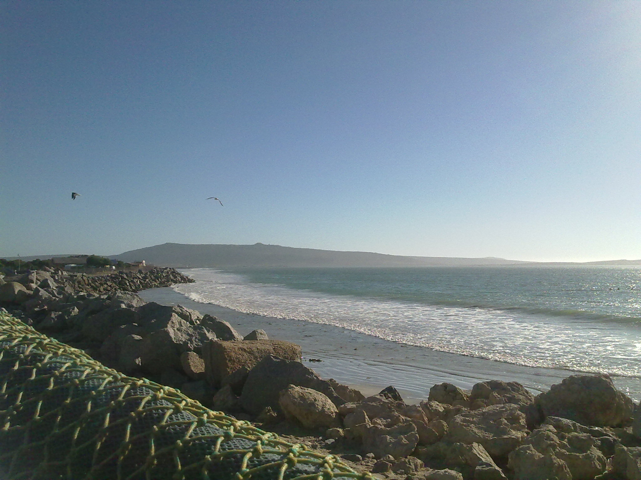 Langebaan at dusk